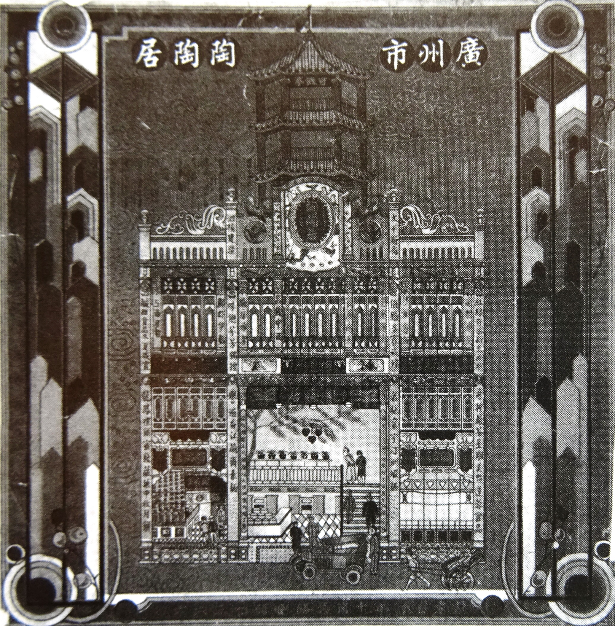 An advertisement of To To Kui Restaurant，Canton in early 1930s.